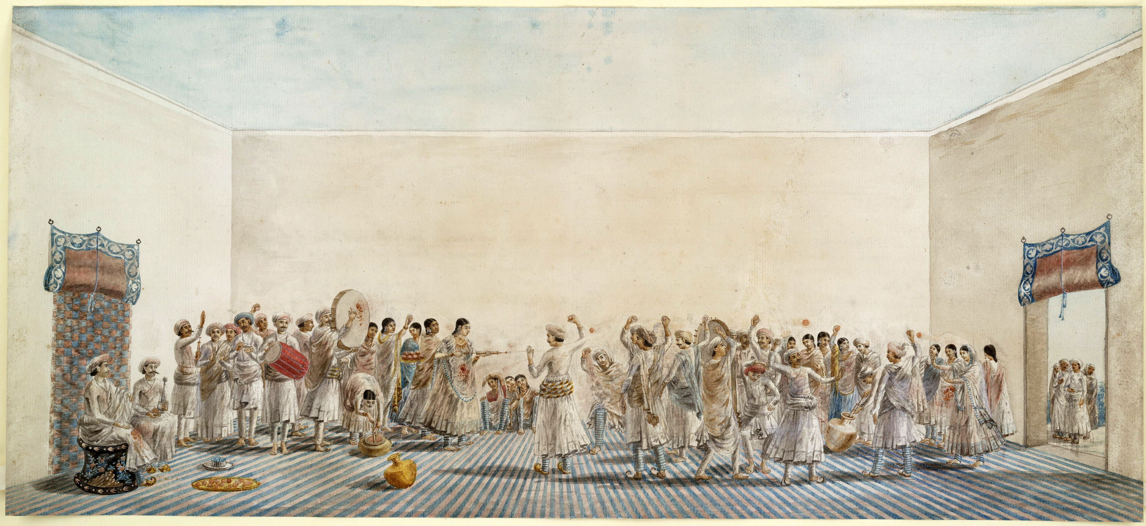 Holi being played in the courtyard, ca 1795 painting. Patna style Inscribed on the back of the drawing is: 'No.4. The Gift of E.E. Pote Esqr. Elizath Collins.